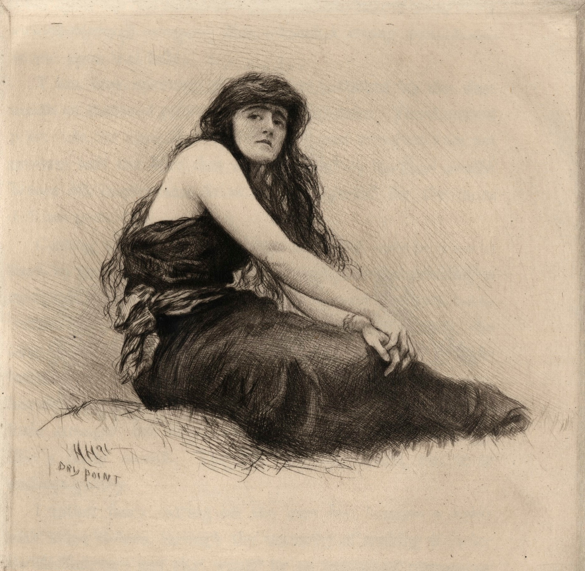 Gwenddydd a drypoint engraving by Sir Hubert von Herkomer (1849–1914).